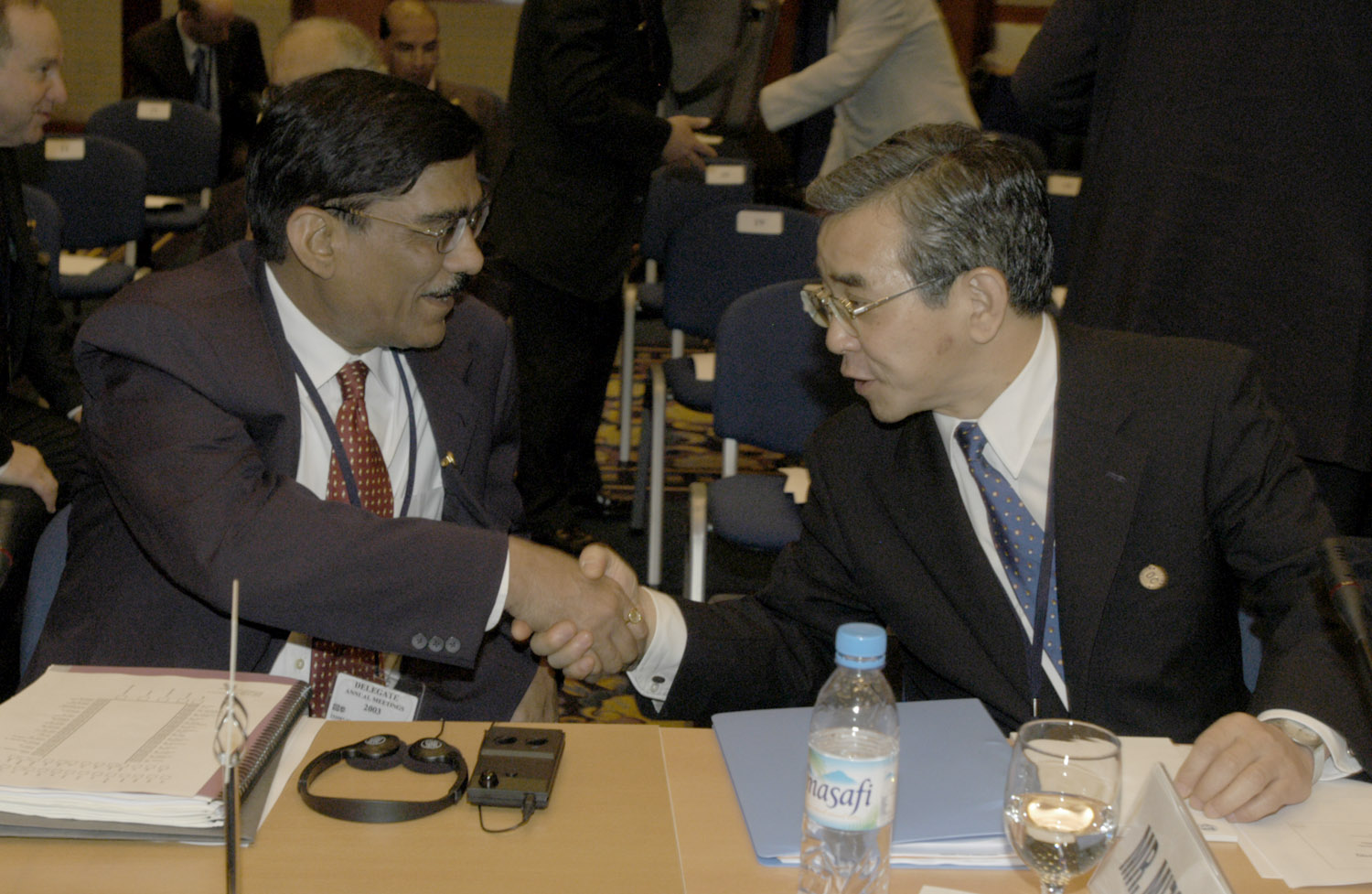 Indian Finance Secretary Dinesh Gupta, left, greets Zembei Mizoguchi, Japanese Vice Minister of Finance for International Affairs at the start of the World Bank's Development Committee meeting. 2003 Annual Meetings, Dubai, United Arab Emirates